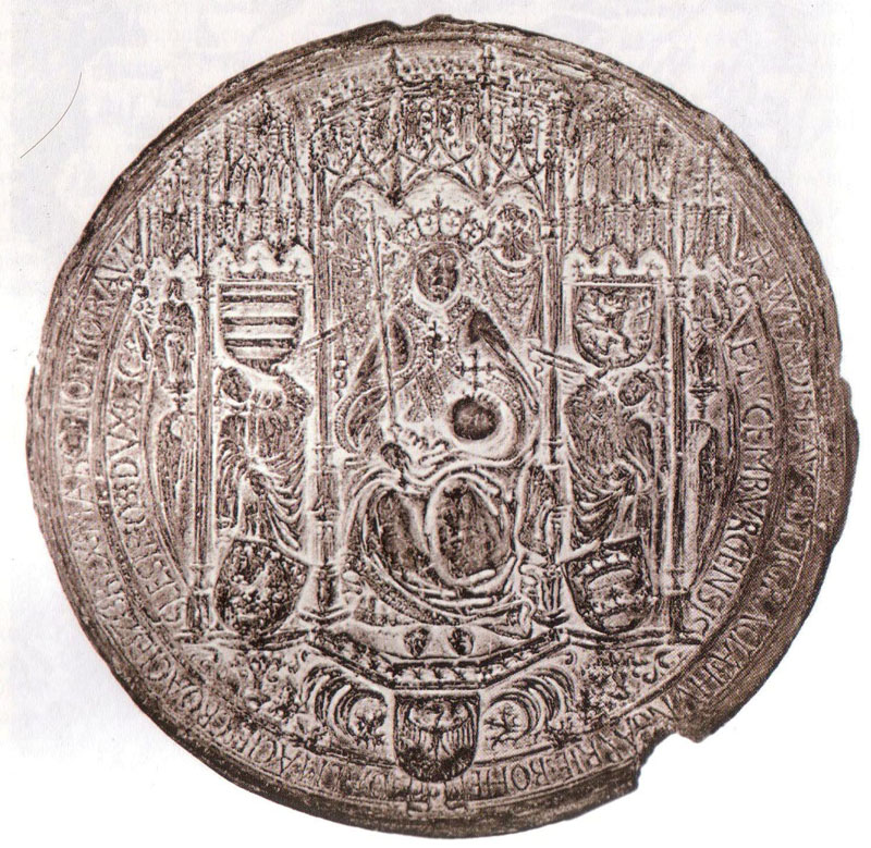 Siegel Vladislaus II Jagiellon of Bohemia and Hungary